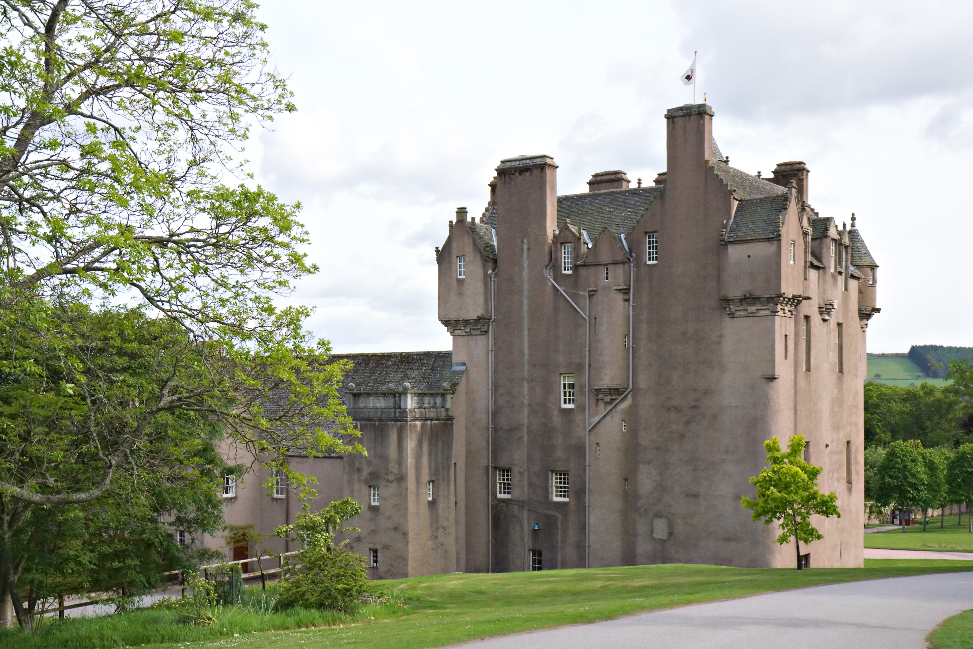 Crathes Castle rear view; Aberdeenshire, Scotland